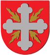 The coat of arms for Urjala munipalicity in Finland